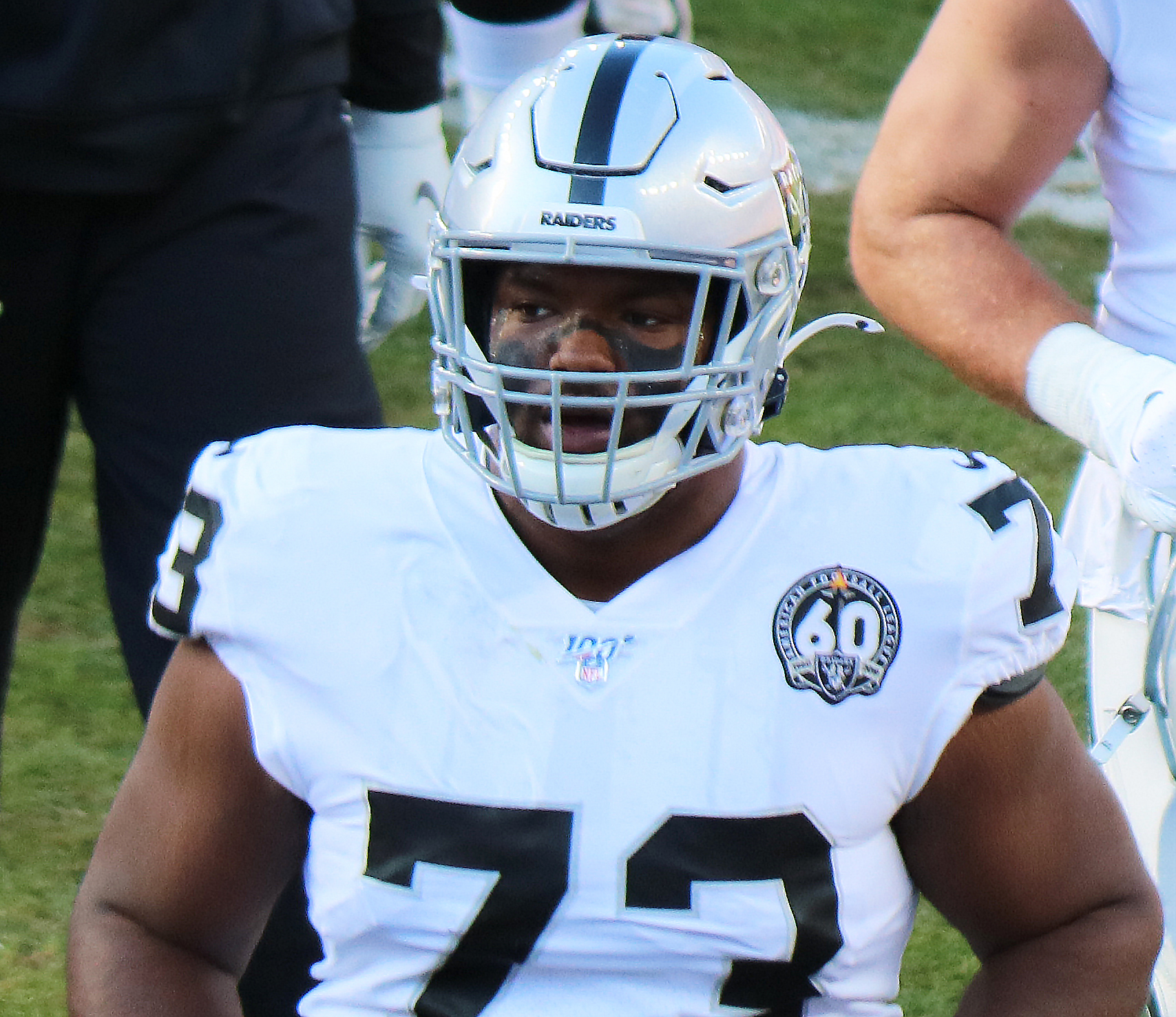 {W|Maurice Hurst Jr. , a National Football League player.